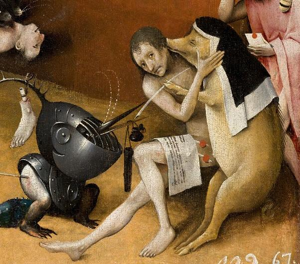 The Garden of Earthly Delights, inner right wing, detail.